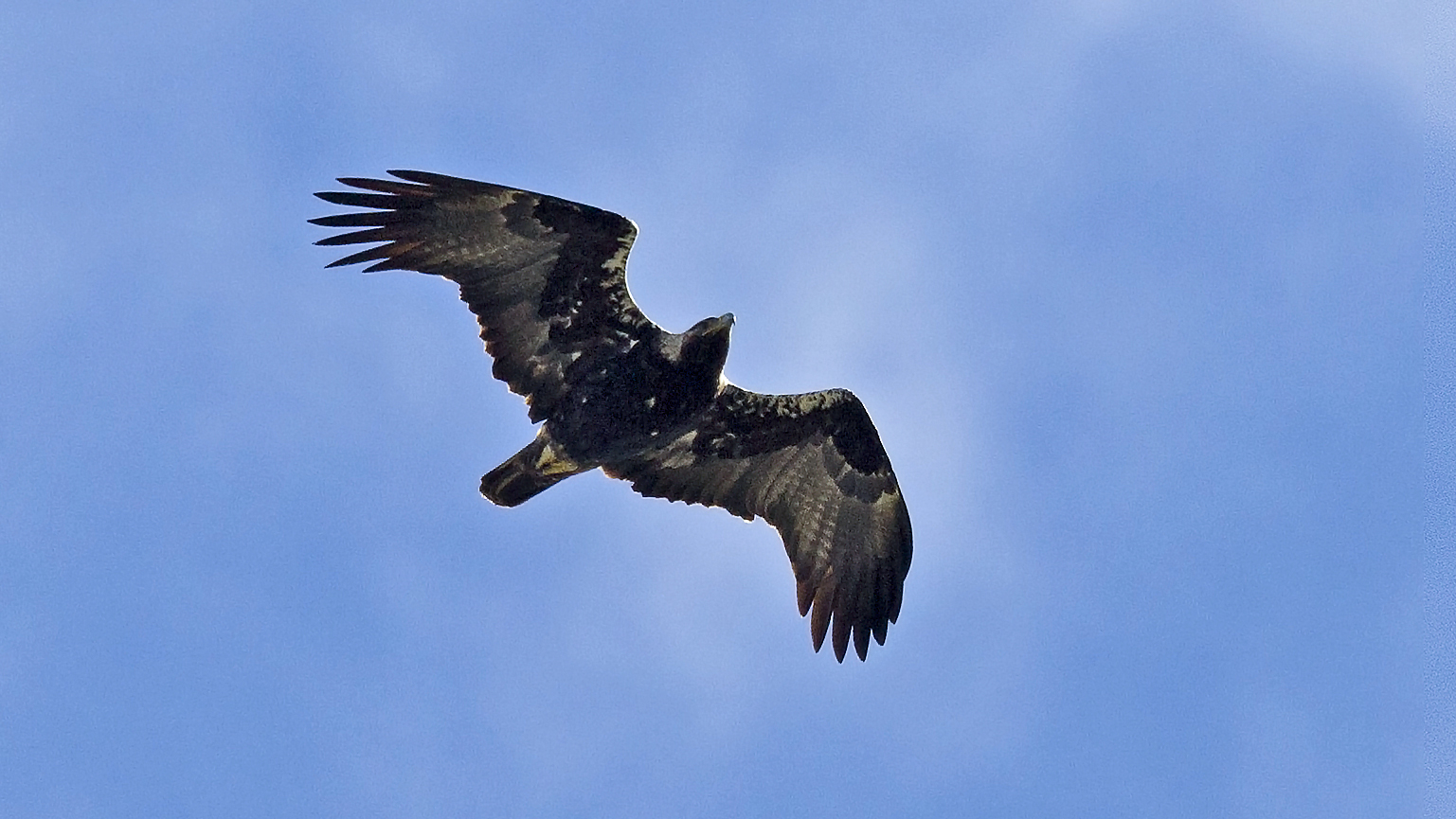 Spanish imperial eagle (adult)